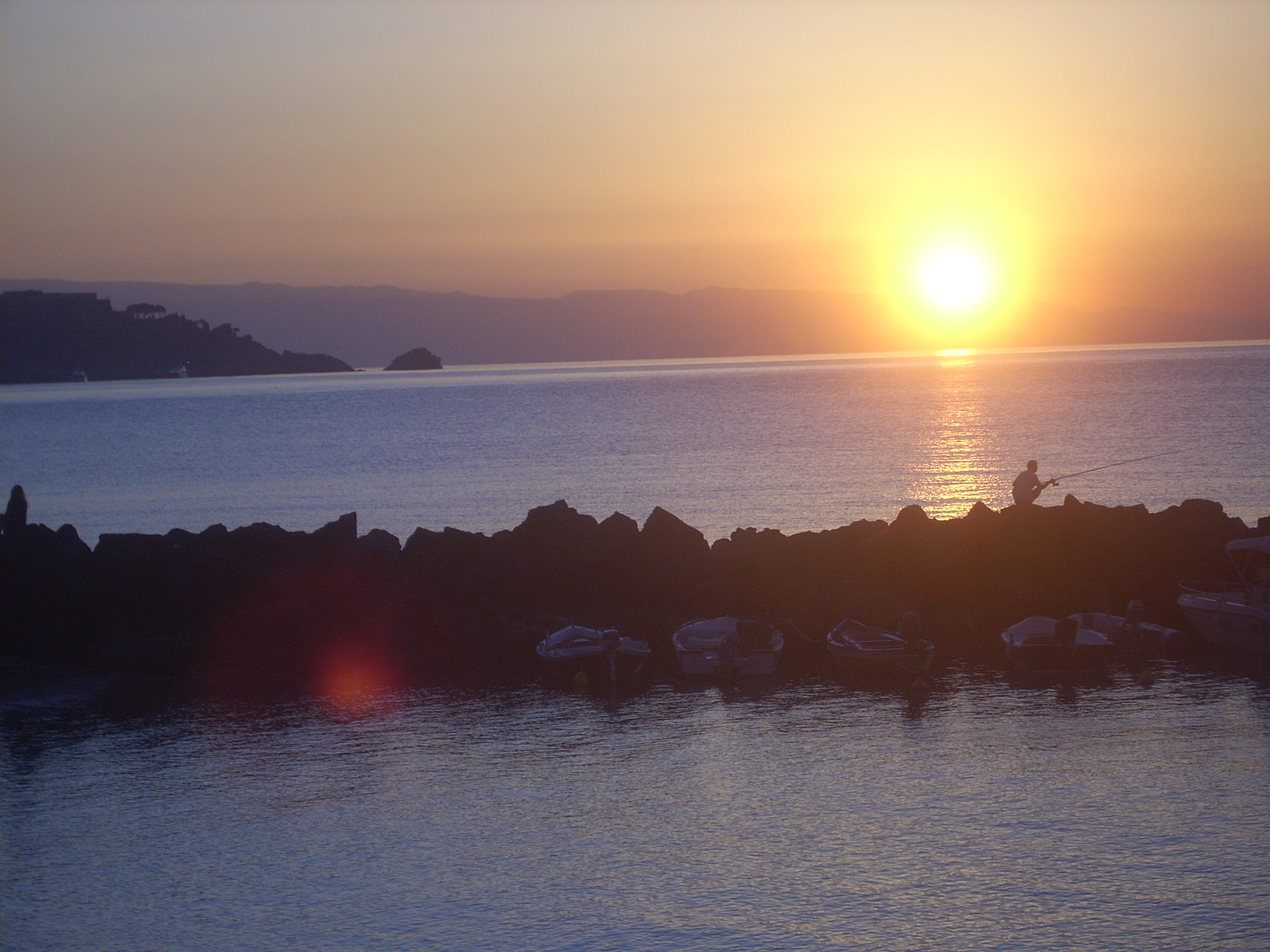 Giardini Naxos bay at sunrise on morning of Ferragosto